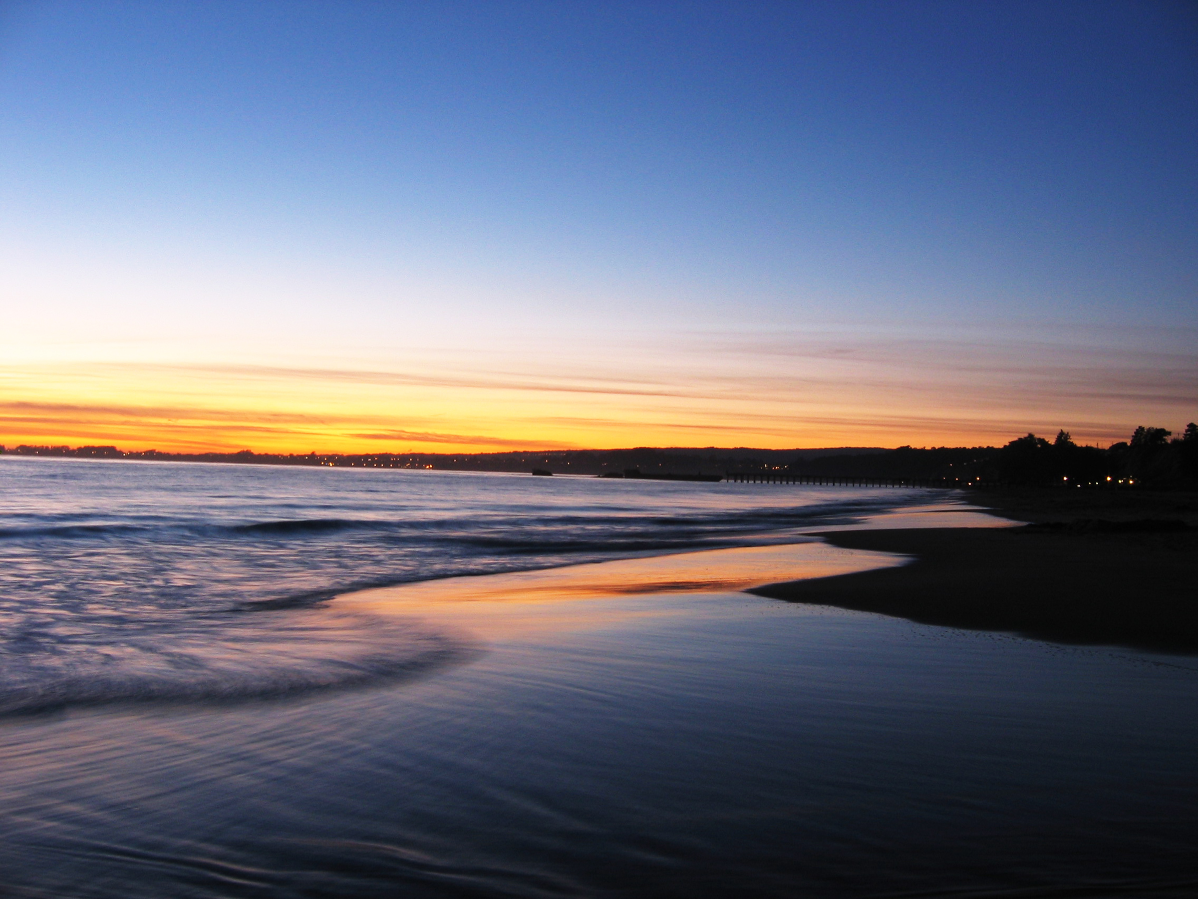 An evening look at Seacliff State Beach in Aptos, California. This amazing sunset was captured by Wikipedian, Prg, with a Canon Powershot A80 roughly 30 minutes after the official sunset. The shutter speed was 1.0 sec and F-Stop was f/5.0 at an ISO of 50.